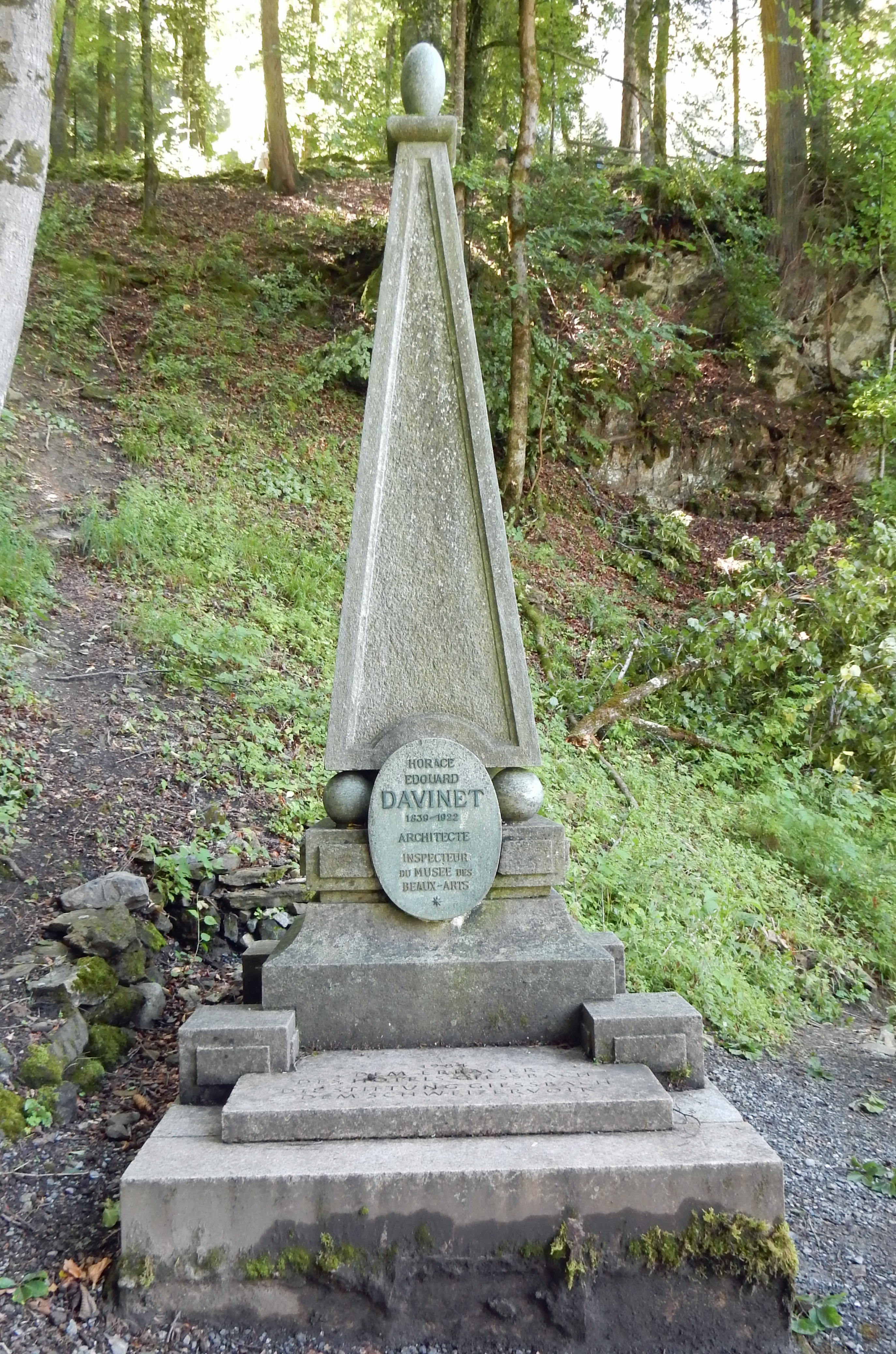 Brienz, Giessbach, Horace Edouard Davinet (1839-1922), funerary monument